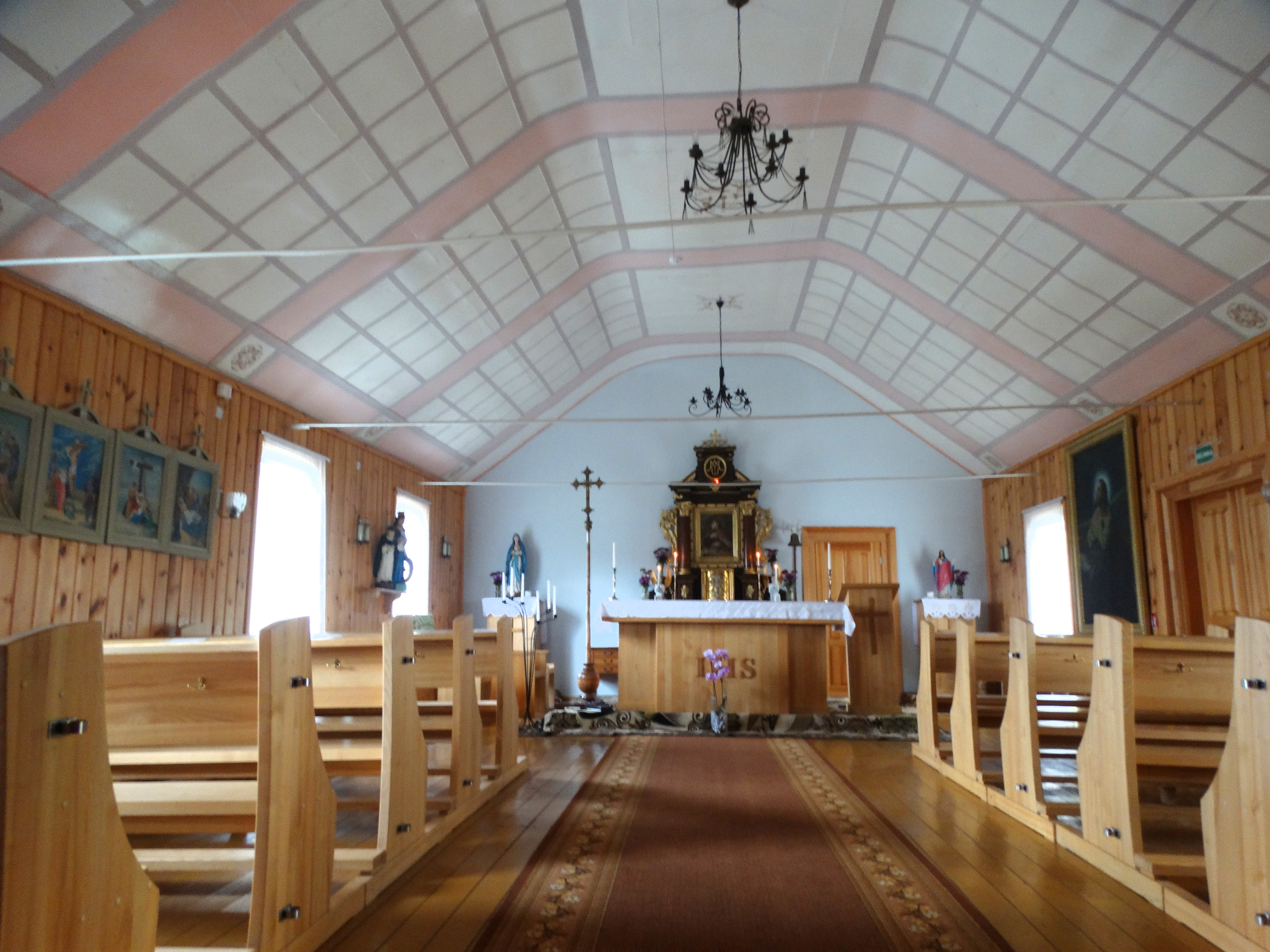 Kalnujai, Saint Victor church, Raseiniai district, Lithuania